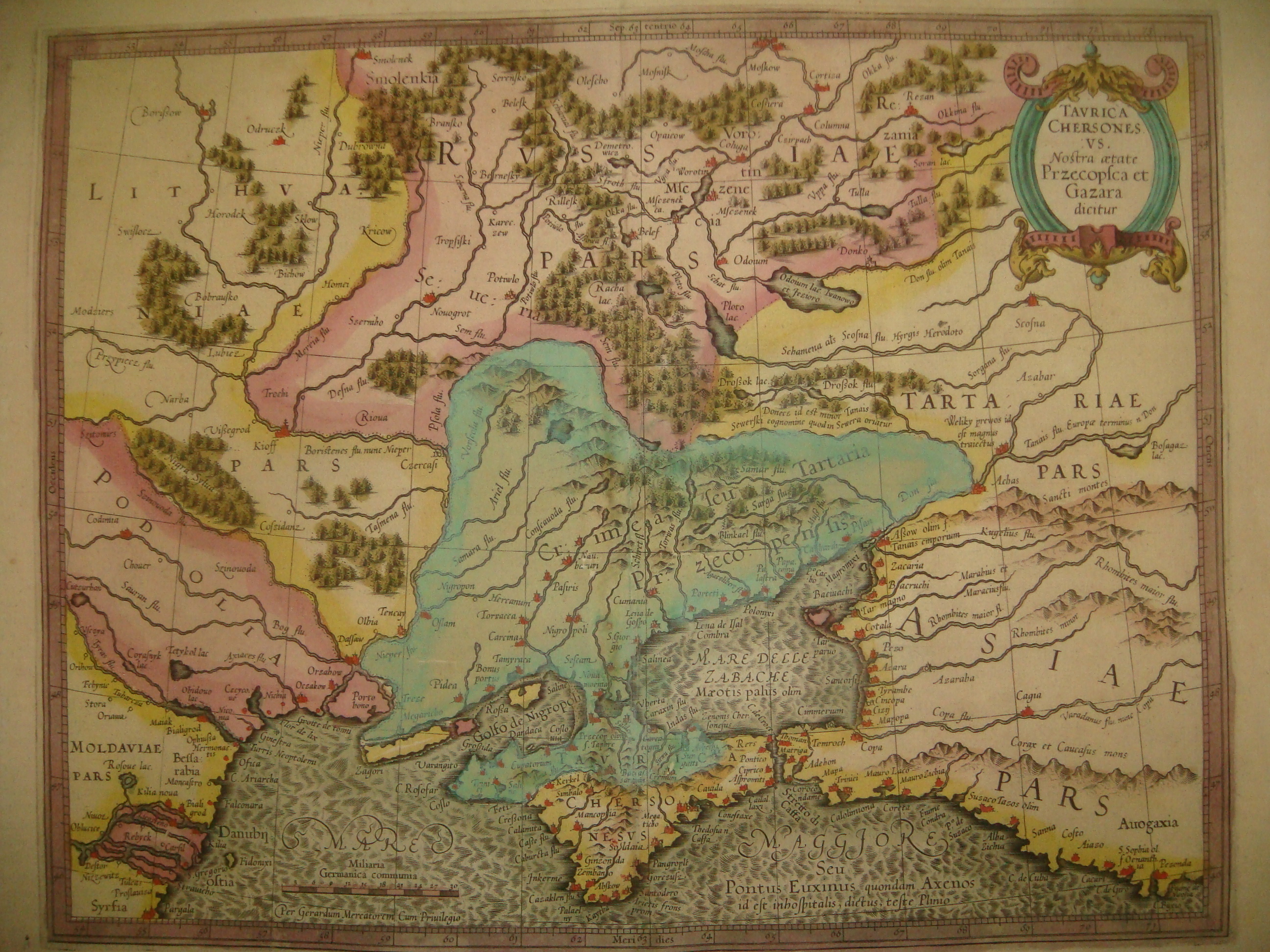 Decorative coloured copper engraving map by Mercator, French edition, 1613-16 A.D. Map of the Black Sea - Crimea - Ukraine - Russia "Taurica Chersonesus. Nostra aetate Pruccopsca et Gazara dictur." Cartographer Gerard Mercator (1512-1594) Mercator was a Flemish cartographer. He was born in Rupelmonde in East Flanders in the Holy Roman Empire of the German Nation to parents from Gangelt in the Duchy of Jülich (modern Germany). Since 1552 he lived in Duisburg. He is remembered for the Mercator. Size Leaf app.: 45.8 x 54.2 cm Map app.: 31.0 x 39.8 cm